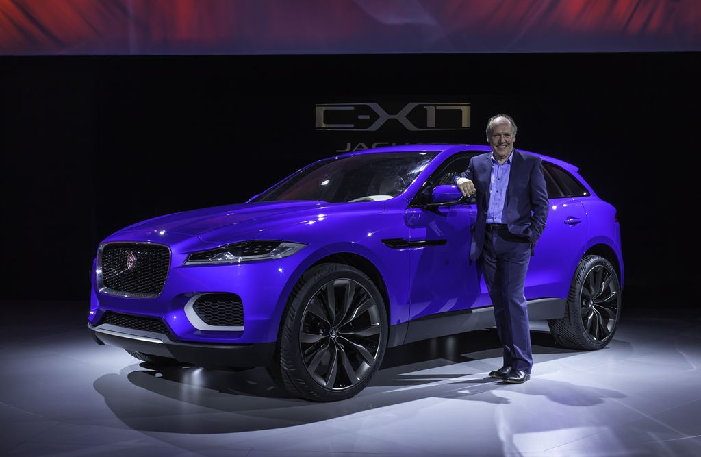 Jaguar’s first ever sports crossover concept vehicle – the C-X17 – makes its debut at Palais Thurn und Taxis, Frankfurt Explore more on